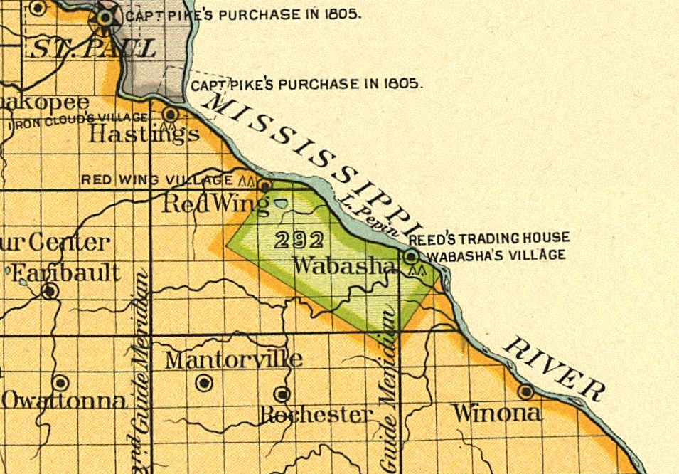 Details from 18th Annual Report, Plate 104—Minnesota, 1: Map of the Half-Breed Tract in Minnesota, a reservation designated for individuals of mixed American Indian and European descent. This reservation was designated in the 1830 Treaty of Prarie du Chien.